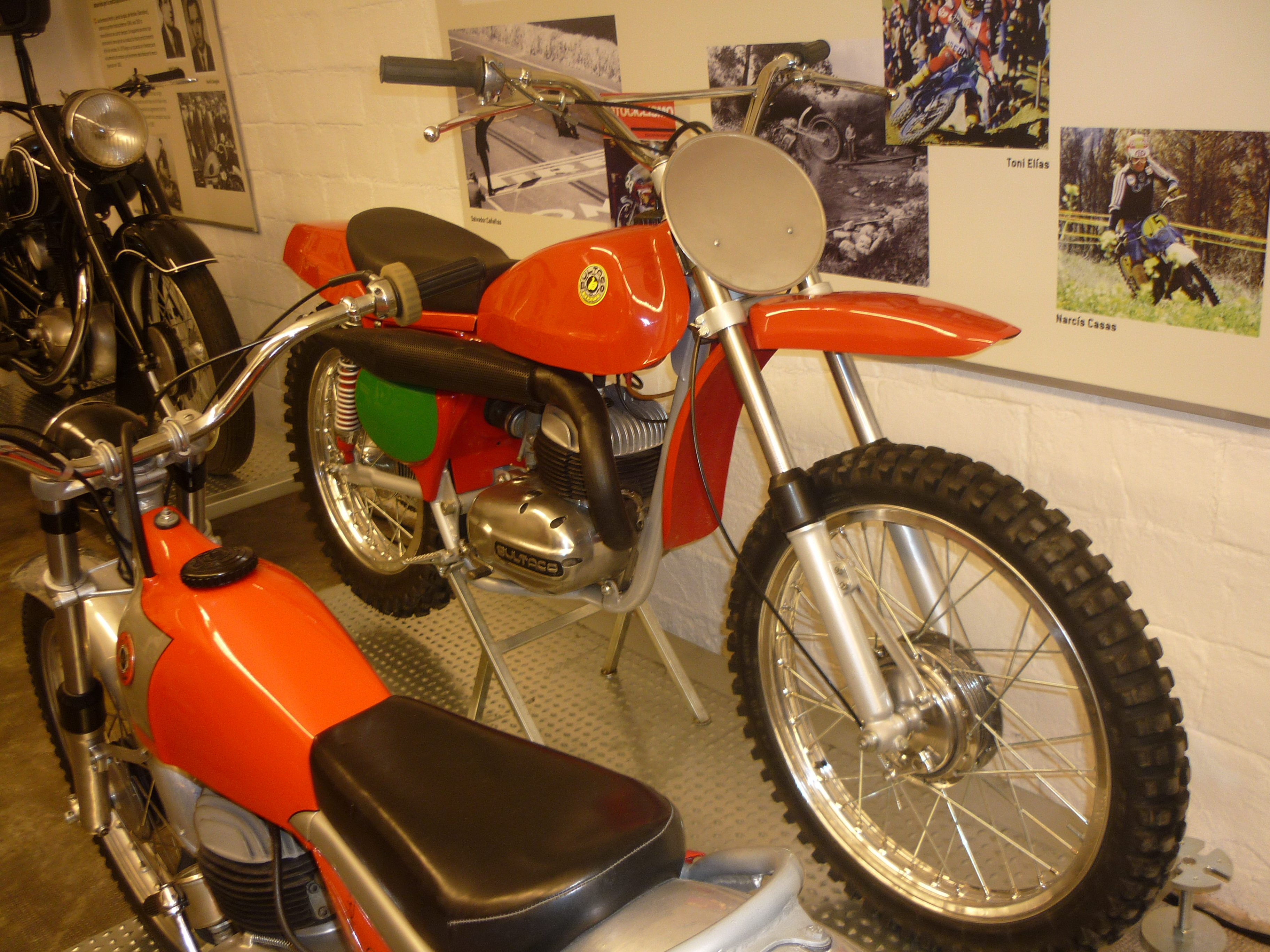 Bultaco Pursang MK2 250cc (1967). In front, a Bultaco Sherpa T 250.Museu de la Moto de Barcelona (Catalonia).